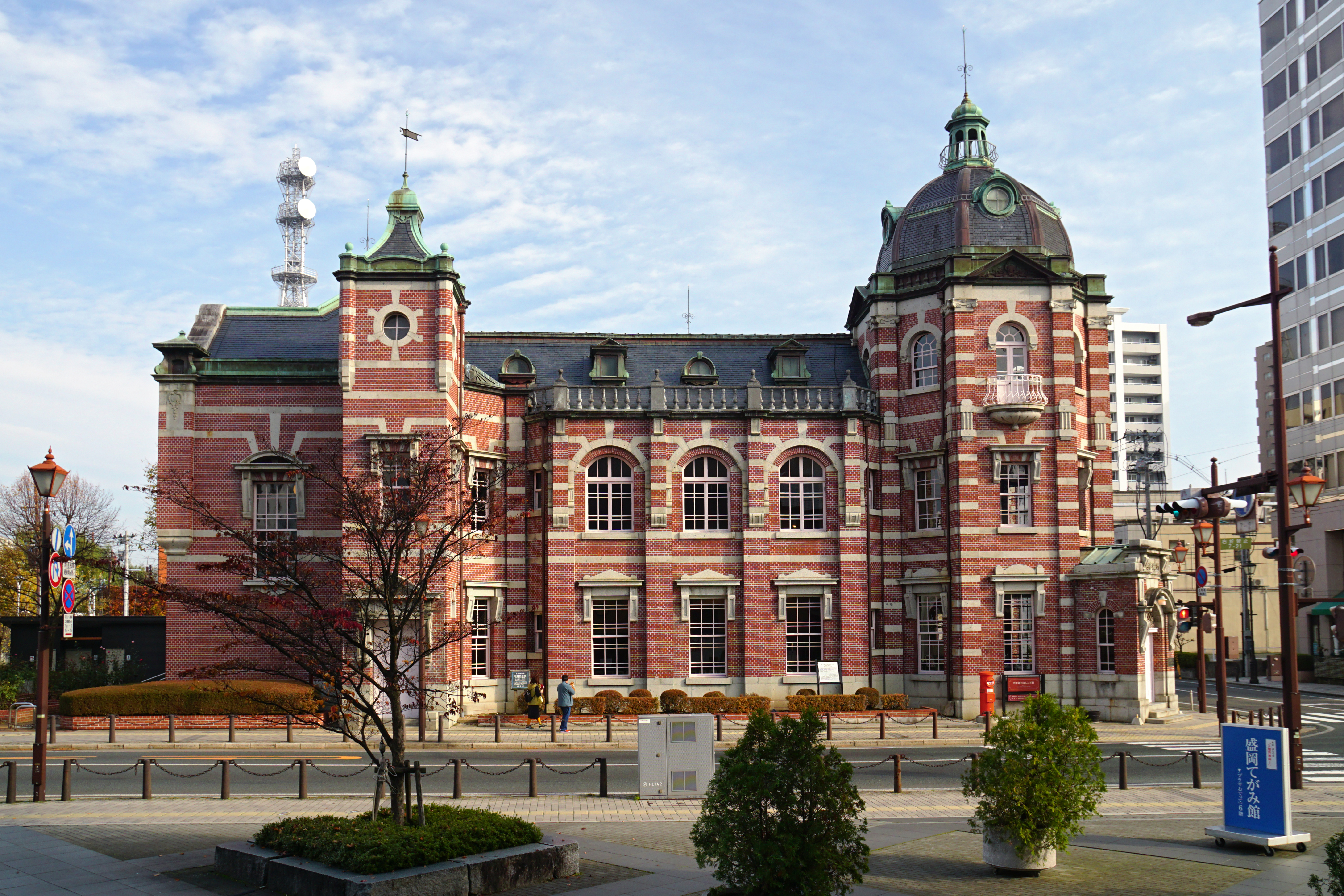 Former Morioka Bank Head Office in Morioka, Iwate prefecture, Japan